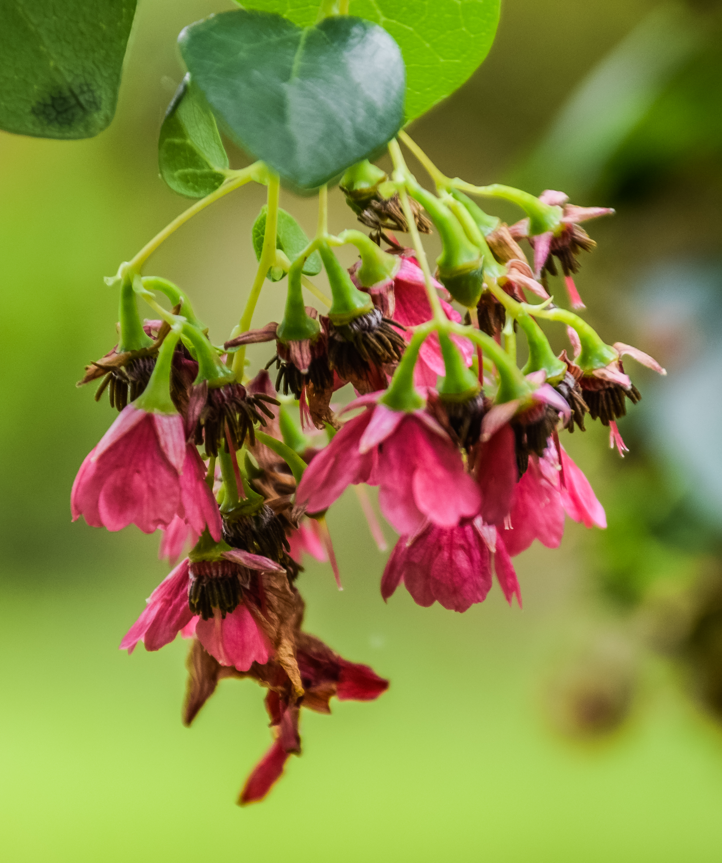 Vallea stipularis in Hackfalls Arboretum, Gisborne Region, New Zealand